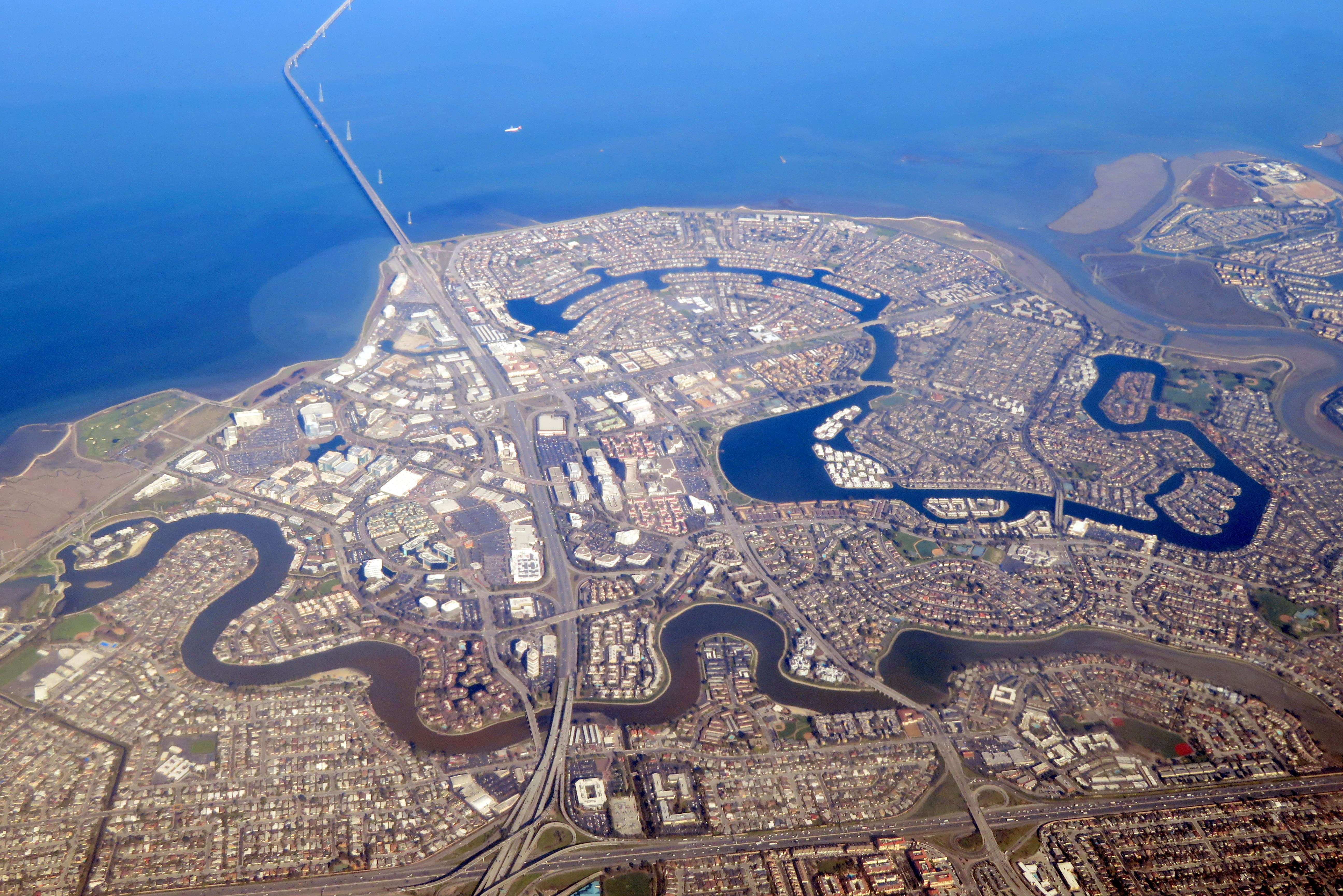 Aerial view of Foster City in February 2018